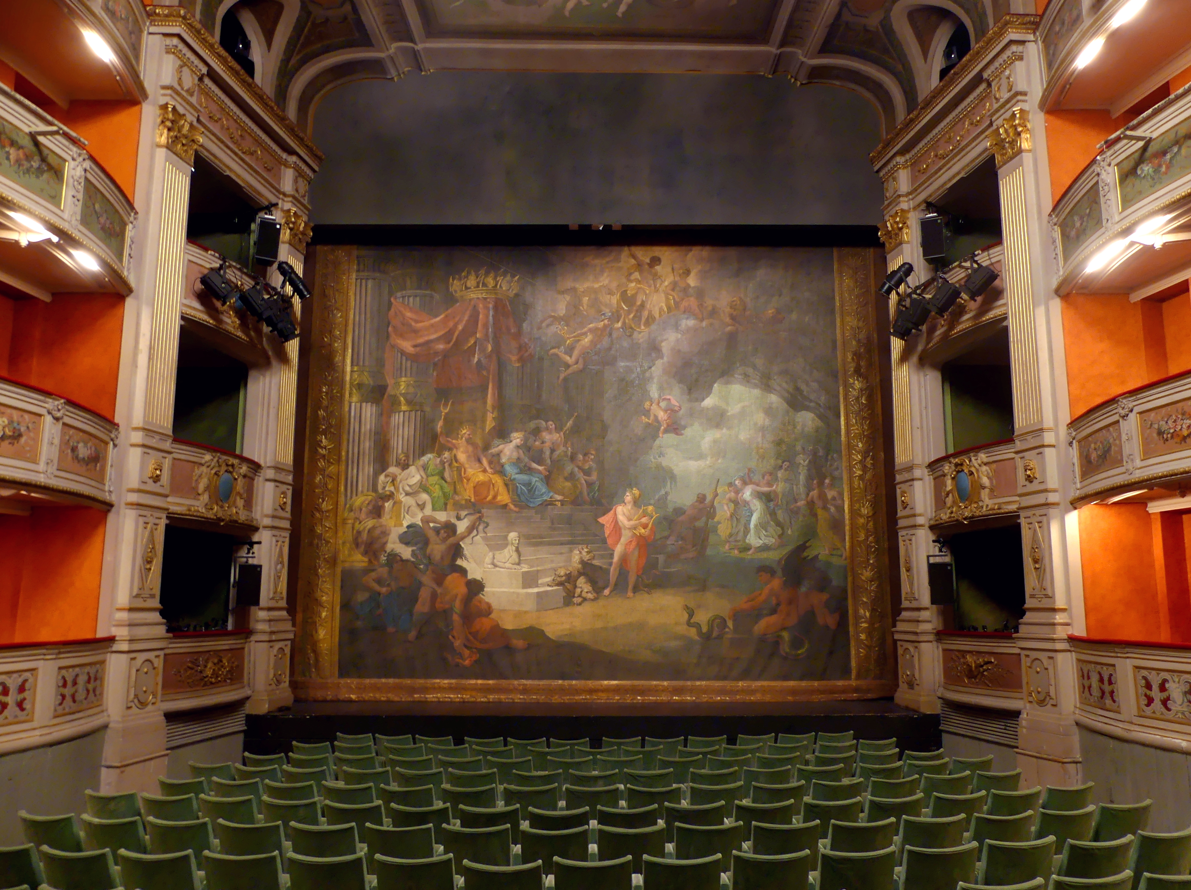 Sight of the great room of the Chambéry theater with the rideau d'Orphée curtain, in Savoie, France.